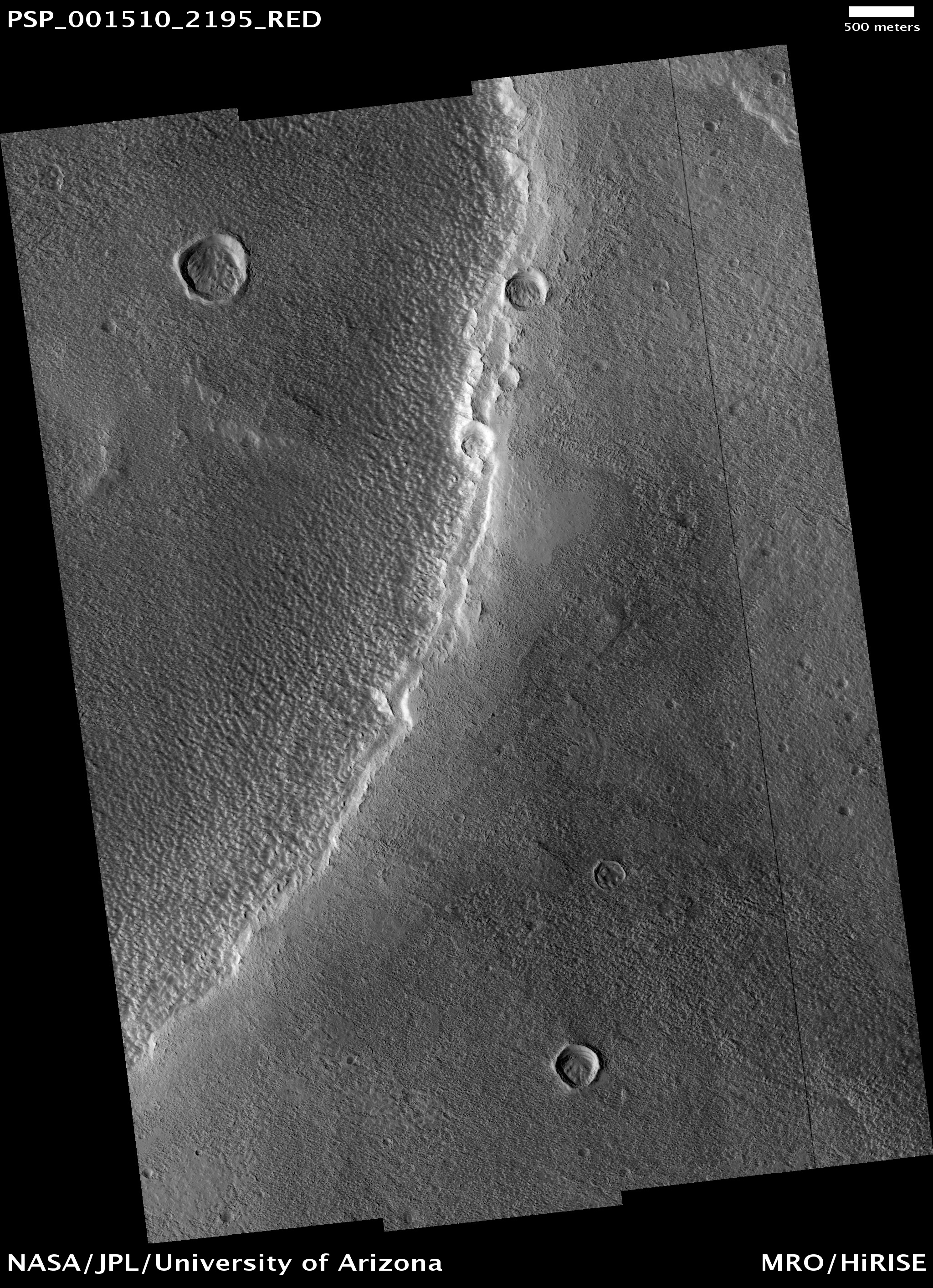 Dusty surface at SW edge of small portion of the rim of the Alba Patera - caldera at the top of the volcano Alba Patera